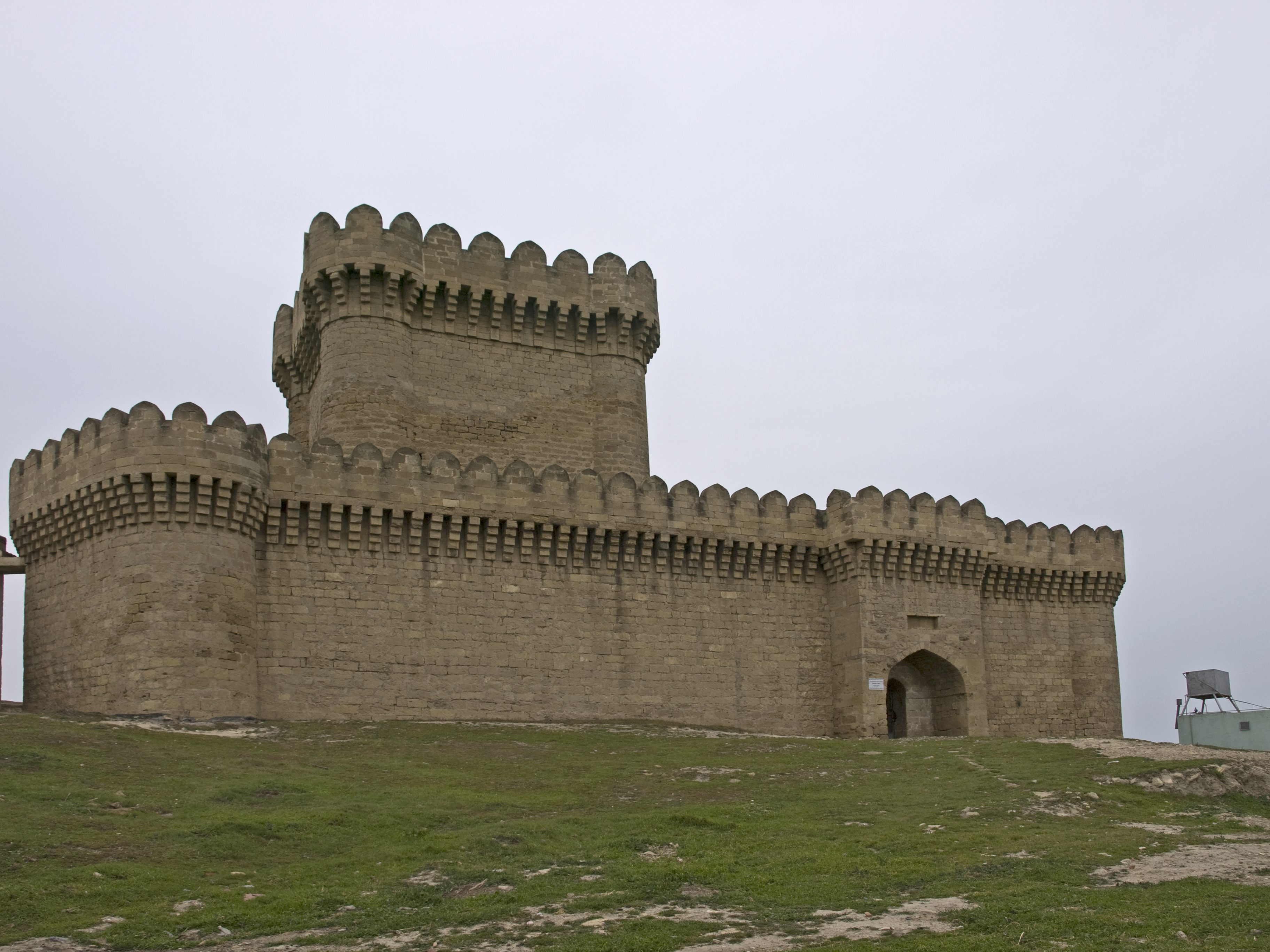 Ramana castle from the south